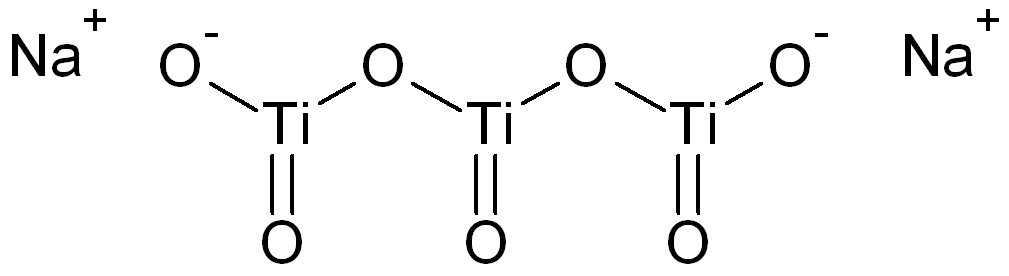 Sodium meta titanate